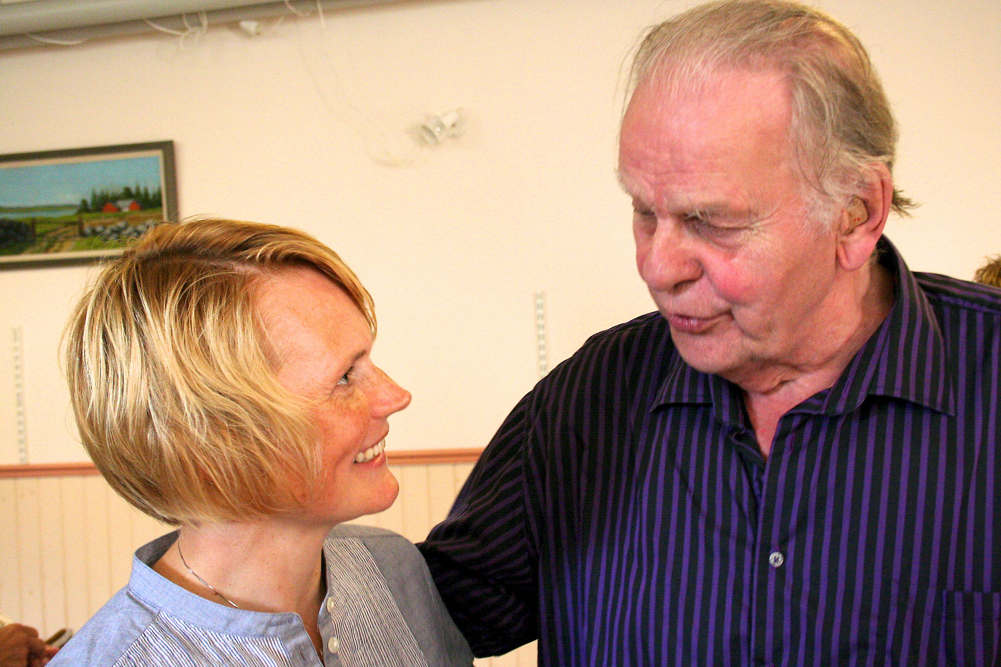 Anna-Karin Hatt, minister for It and regional affairs meets with former prime minister Thorbjörn Fälldin